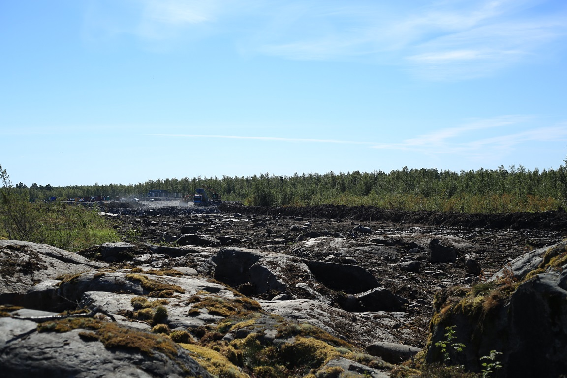 Hanhikivi 1 nuclear power plant contruction site, Pyhäjoki, Finland. Image by anti-nuclear activist network Hyökyaalto.